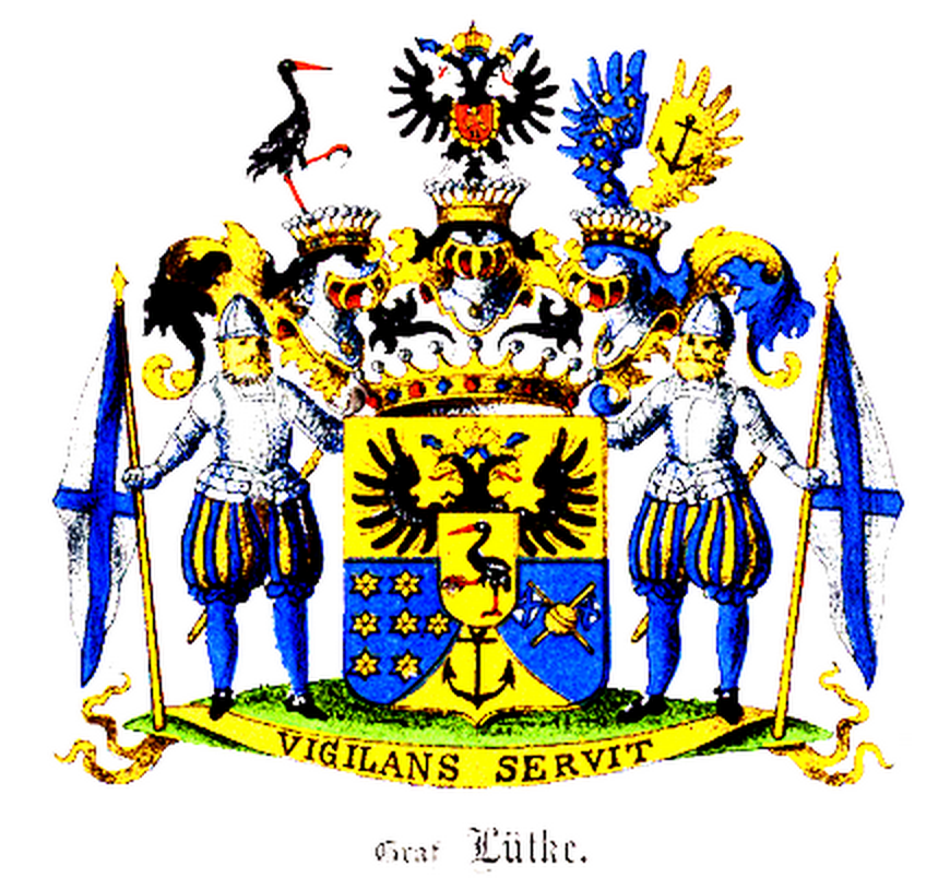 Coat of Arms of Graf Luetke family